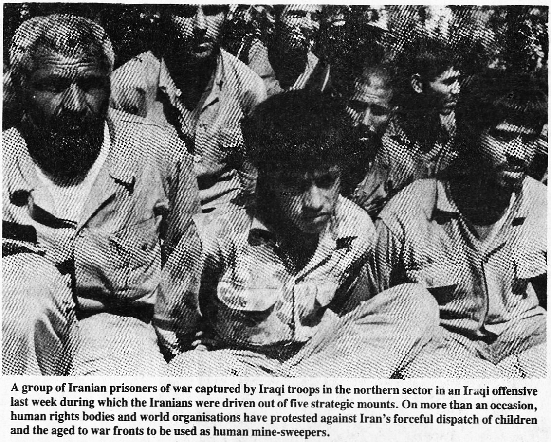 A group of Iranian prisoners (POWs) of war captured by Iraqi troops in the northern sector in an Iraqi offensive last week (between 9th and 14th of June 1988) during which the Iranians were diven out of five strategic mounts.